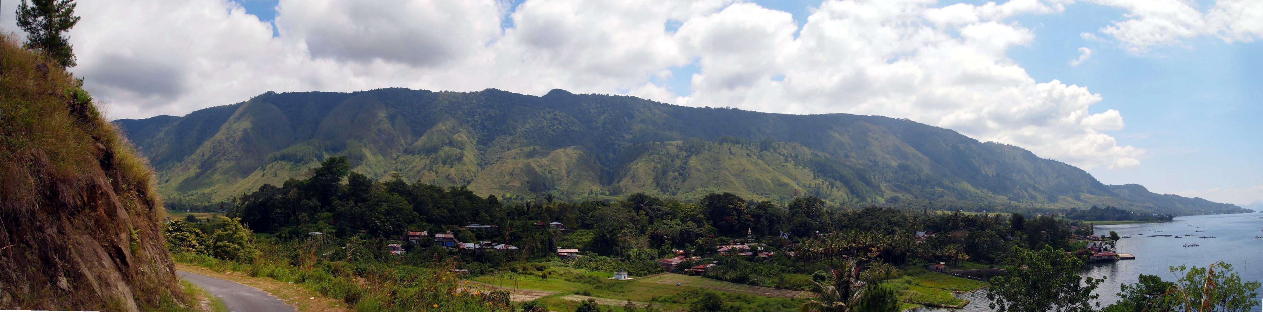 Panoramic view of Ambarita from a hill nearby, Samosir Island, Lake Toba.